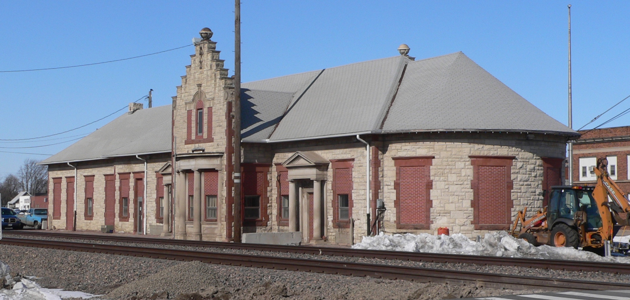 Union Pacific depot in Columbus, Nebraska; seen from the southeast. (The building's long axis is parallel to the railroad tracks, which run northeast-southwest.) Built in 1910 in Richardsonian Romanesque style, the depot is a contributing property to the Columbus Commercial Historic District, which is listed in the National Register of Historic Places.